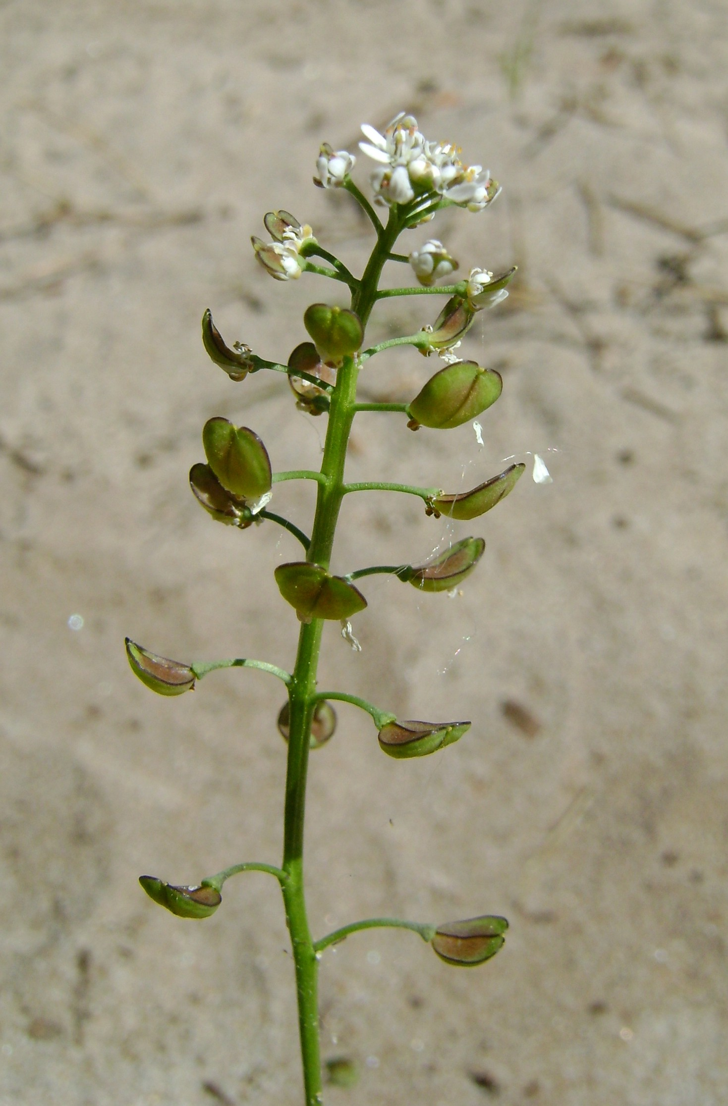 Teesdalia nudicaulis, flowers and fruit